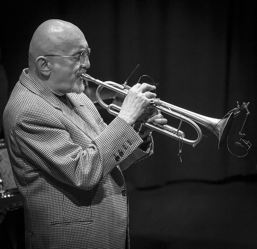 Tomasz Stanko performs at Cosmopolite Scene in Oslo on 9.4.16. Lineup: Tomasz Stanko (trumpet) David Virelles (piano) Reuben Rogers (bass) Gerald Cleaver (drums)